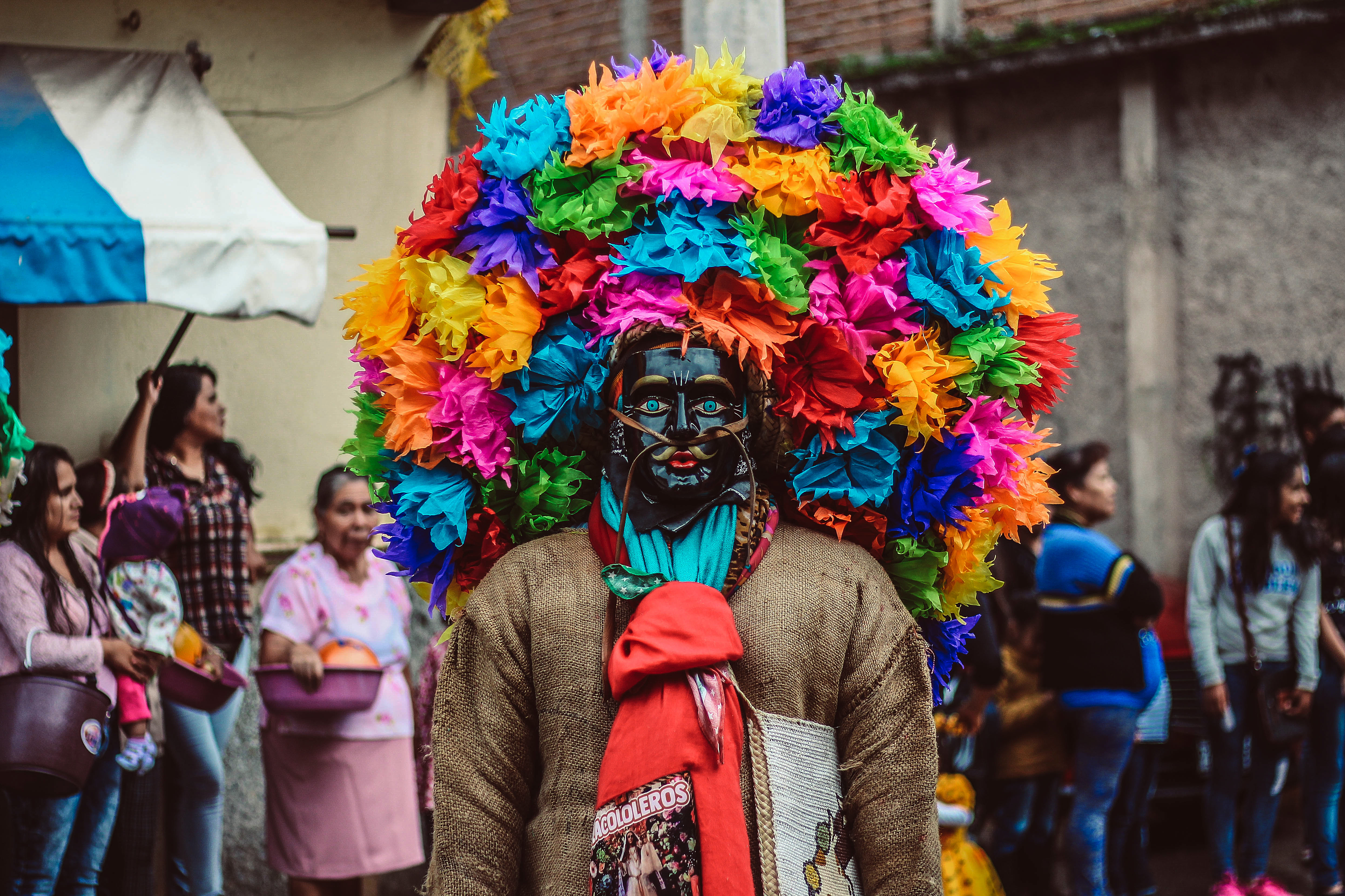 This dance represents the efforts made by the peasants to keep their crops safe.